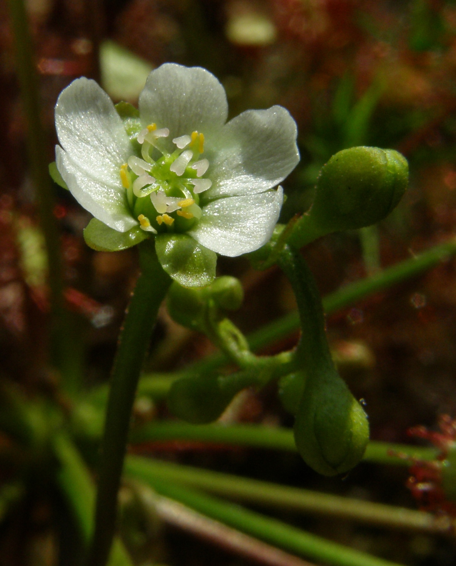 Drosera intermedia